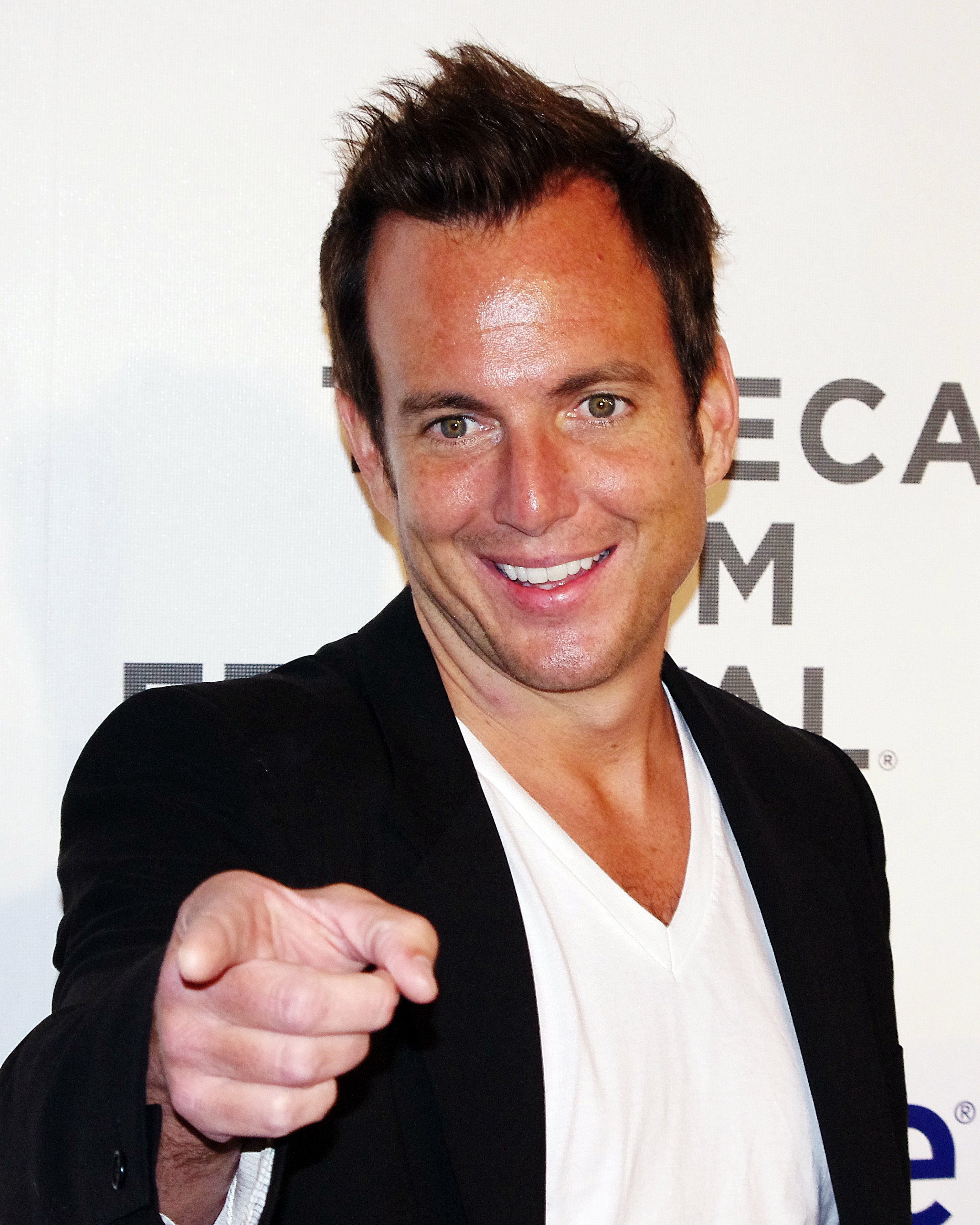 Will Arnett at the world premiere of Mansome at the 2012 Tribeca Film Festival.